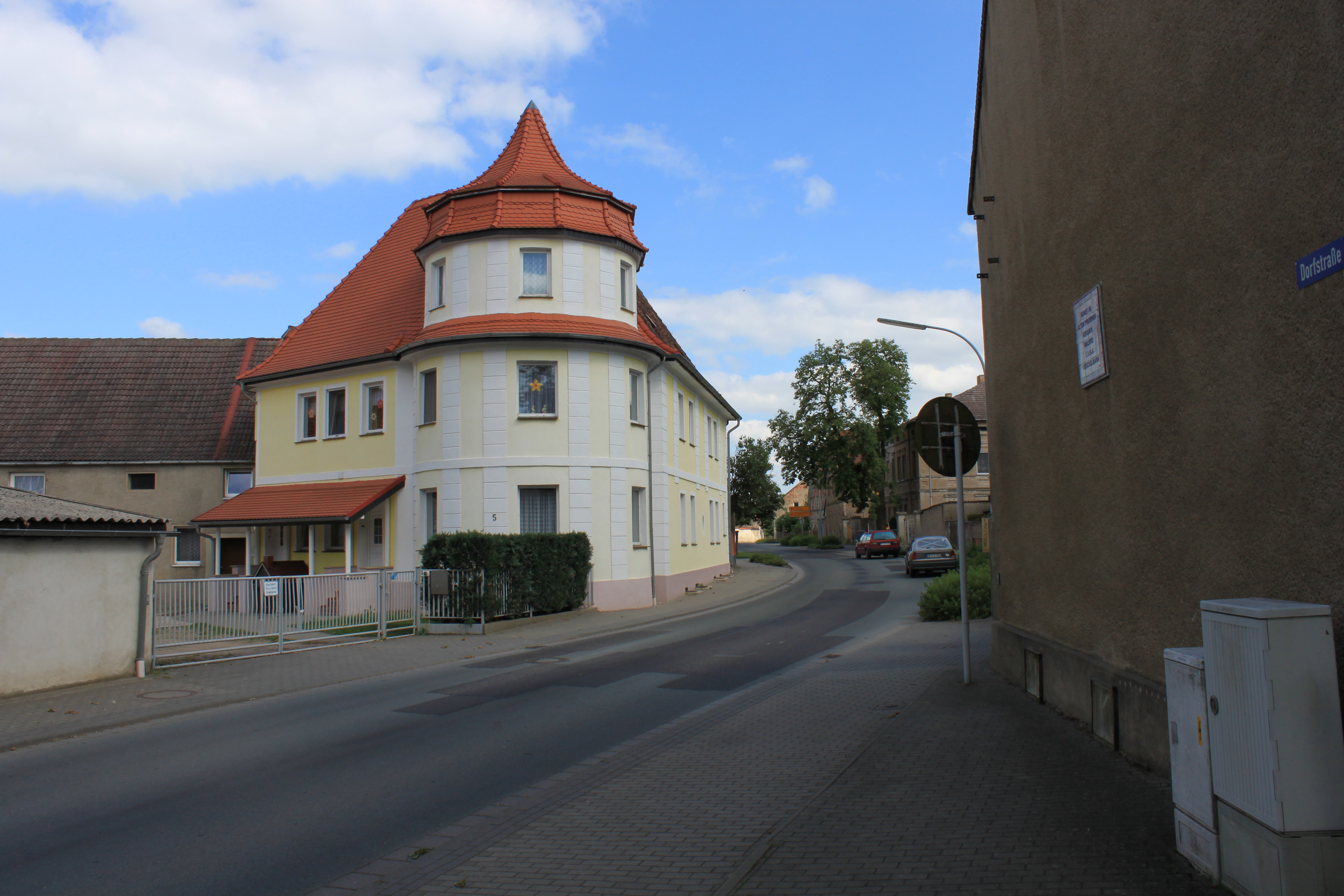 Boragk